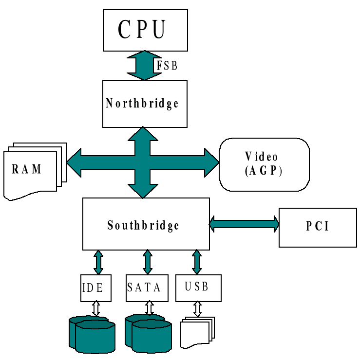 subject PC-architecture, CPU Northbridge, Southbridge, PCI